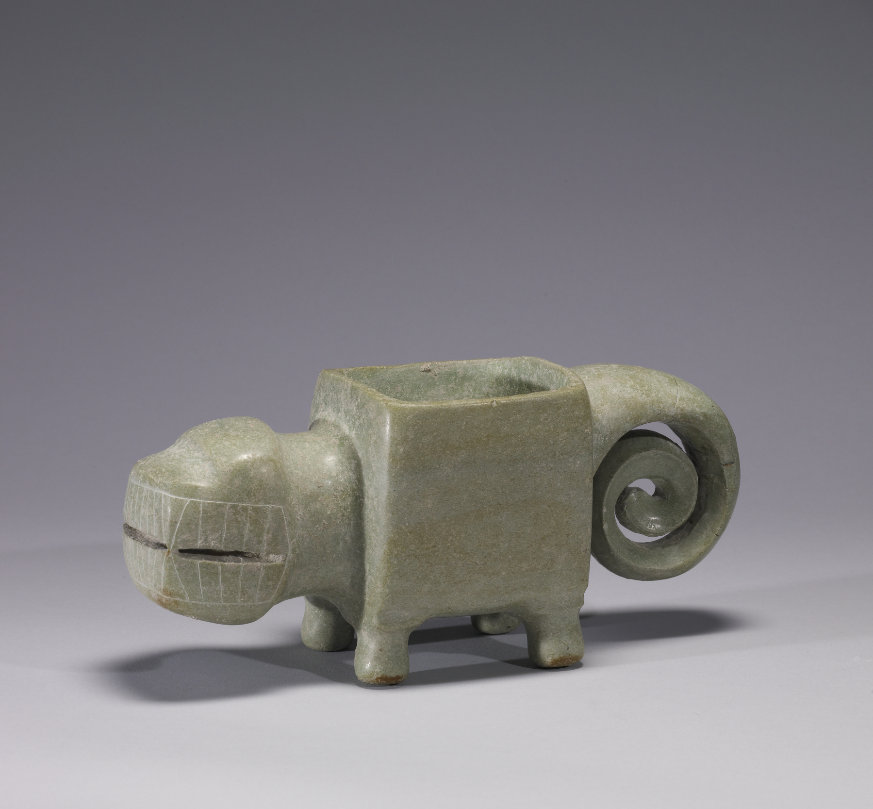 Carved and polished stone 'mortars,' carved as stylized felines or birds, are a well-known category of a poorly known Chorrera culture that flourished on the east coast of Ecuador from 1500-300 BC. Many, such as this example, are carved of green stone, likely due to the association of the color with fertility. This rather abstracted feline mortar represents a jaguar, the prototypical, potent, altar-ego of shamans throughout Middle America. Works such as this one are thought to have served as ritual mortars for the preparation of hallucinogenic snuffs, to be inhaled by shamans to facilitate their interaction with the spirit realm. Although this vessel exhibits some fine scratches within the bowl, it does not seem to have received extensive use. It is possible that this particularly elegant version was created specifically for mortuary internment- it may have thus been used a single time, containing freshly prepared snuff for a deceased shaman to take with him into the spirit realm.